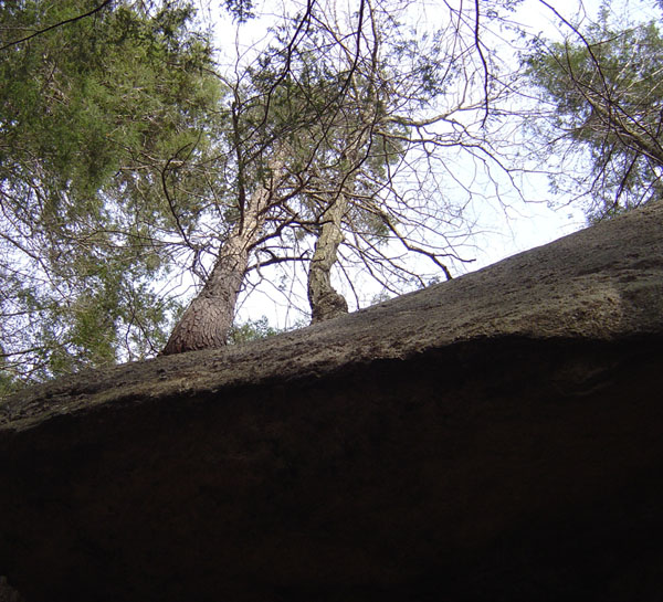 Pine (Pinus strobus) trees growing on top of the Lemon Squeezer in Harriman Park. Picture taken by me.